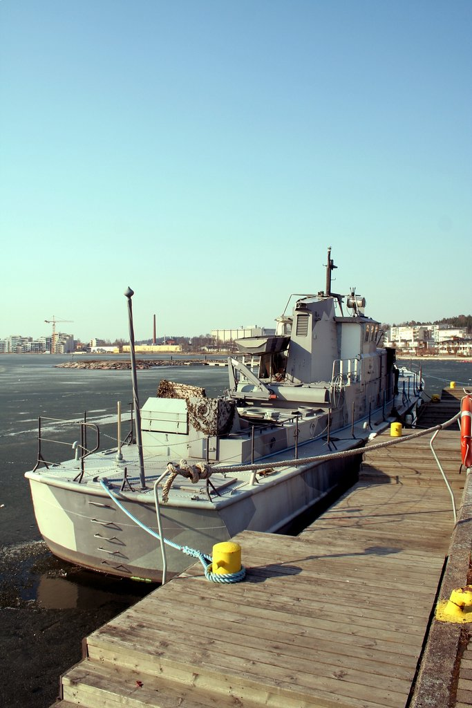 A Koskelo class coast guard ship Koskelo First ship of the coast guard ship Koskelo was build in 1955 on Valmet yards. After Koskelo were built seven others: Kuikka, Kiisla, Kuovi, Kurki, Kaakkuri, Telkkä ja Tavi'. The Finnish coast guard ship Koskelo is in the harbour of Lahti and is used for sailing in Paijanne.